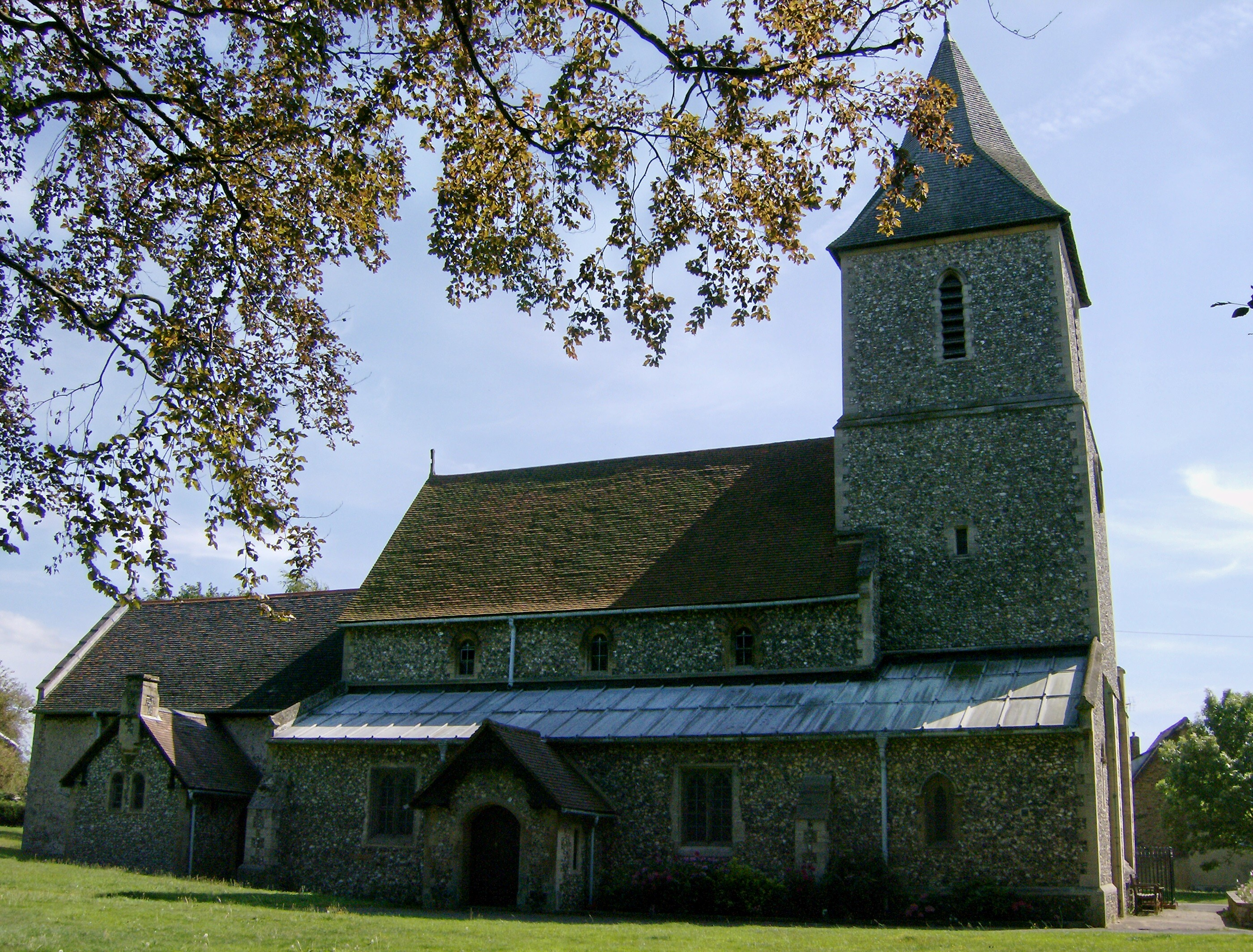 St Leonard's parish church, Sandridge, Hertfordshire, seen from the north